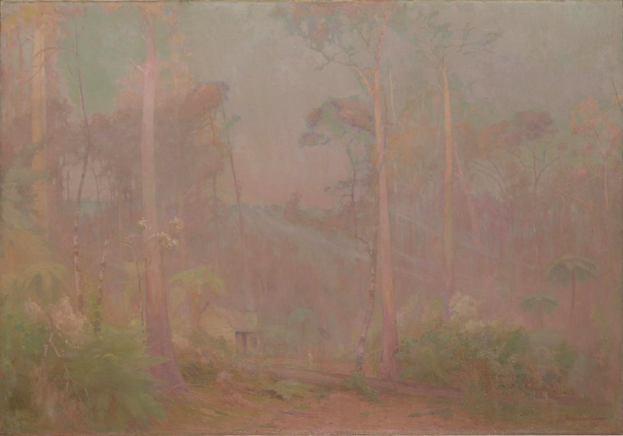 Fernshaw: A Bush Symphony, oil on canvas, 150.0 × 215.0 cm.